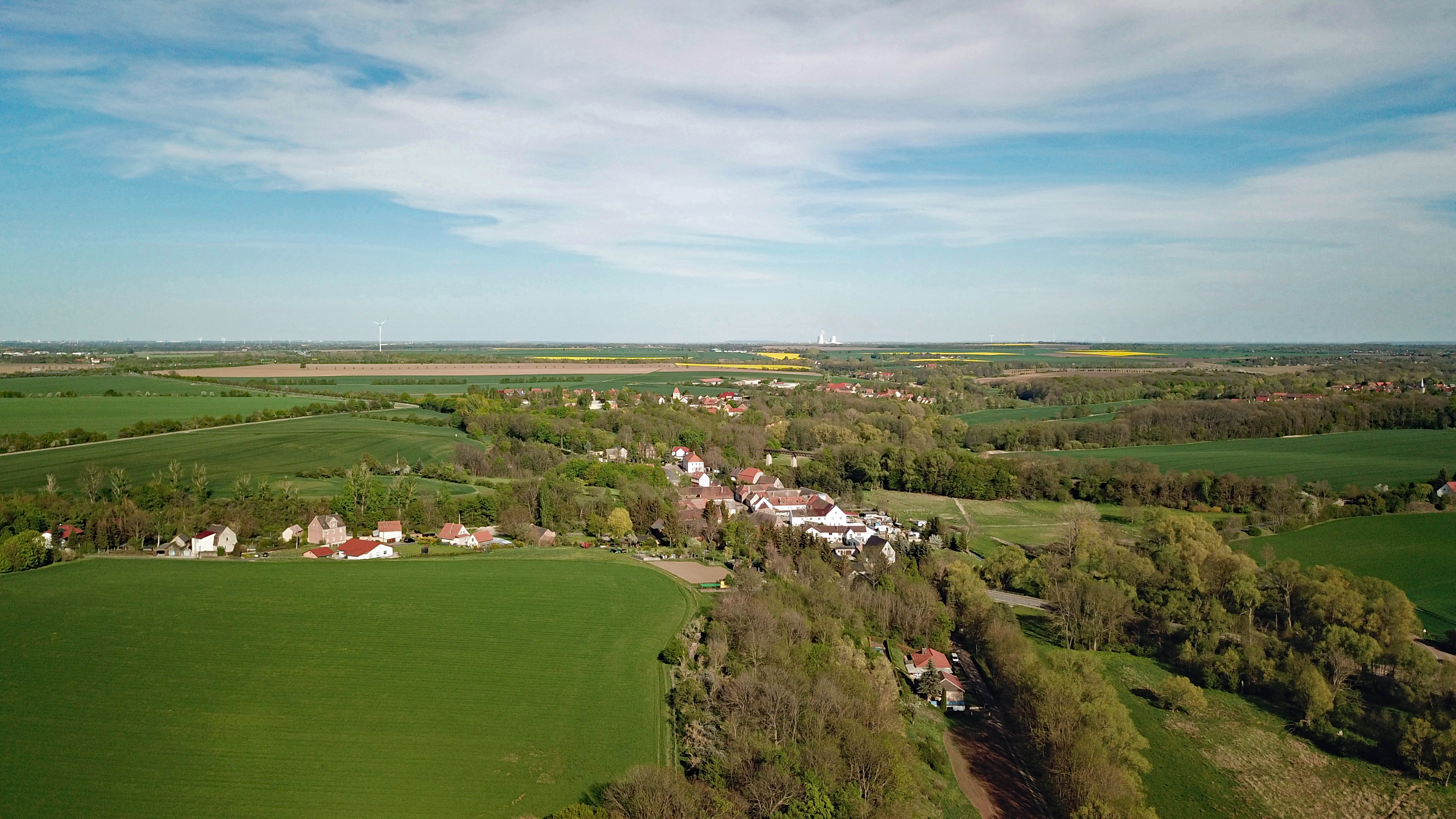 Rippach, Lützen, Saxony-Anhalt, Germany